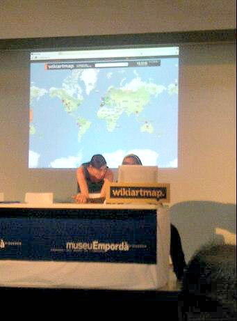 Wikiartmap Presentation at the Museu de l'Empordà on June 7, 2012